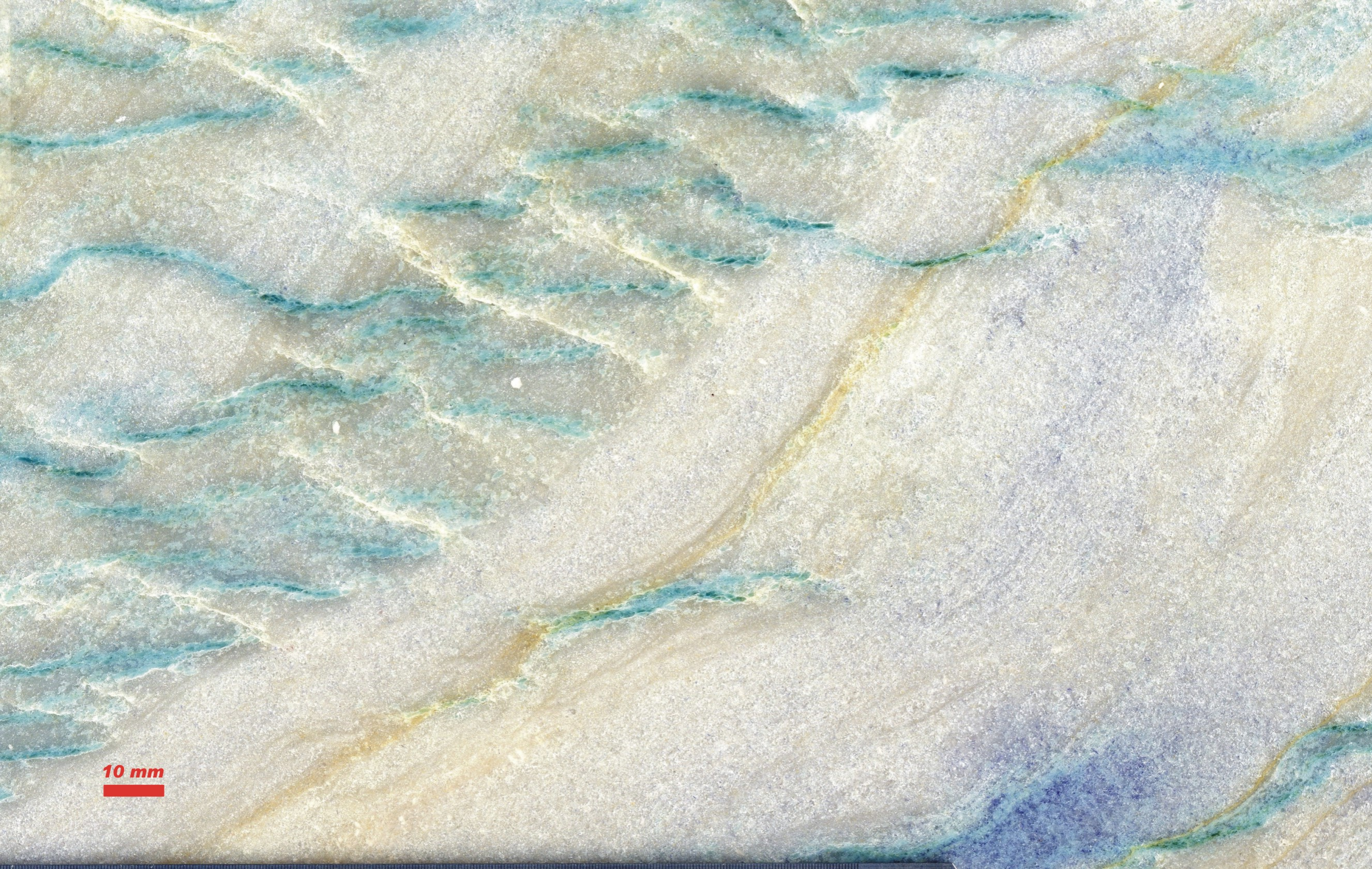 Quartzite: dimension stone Azul Imperial (Brazil)